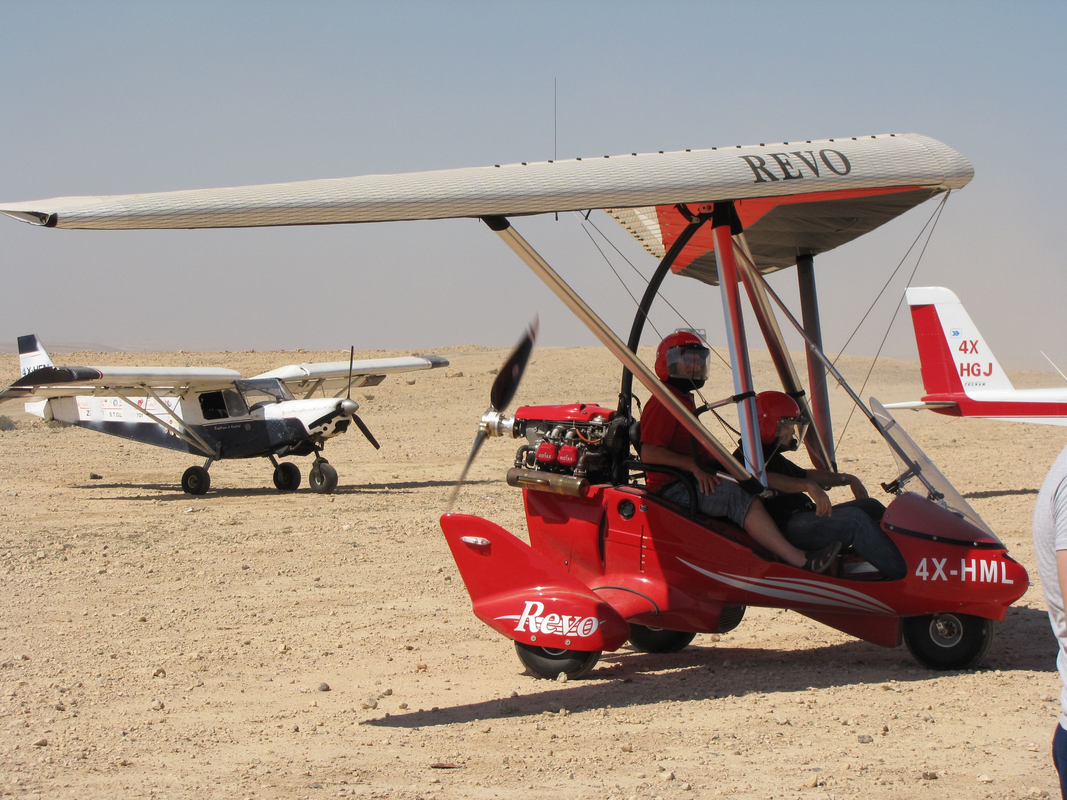 4X-HML at Arad ( Light Aviation day)